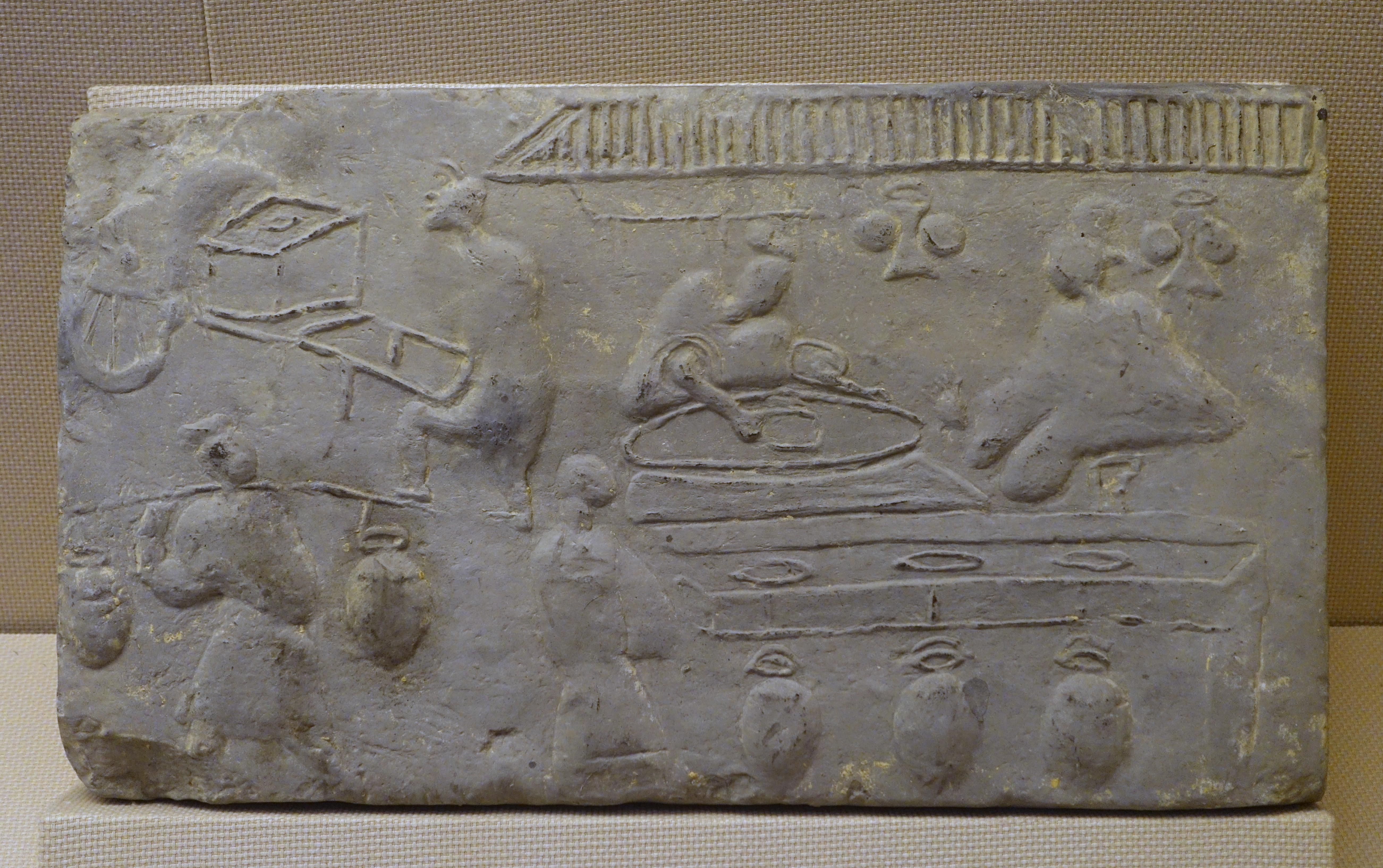 Exhibit in the Sichuan Provincial Museum (四川省博物院), also known as the Sichuan Museum, 251 Huanhua S Road, Chengdu, Sichuan, China. This work is old enough so that it is in the public domain.